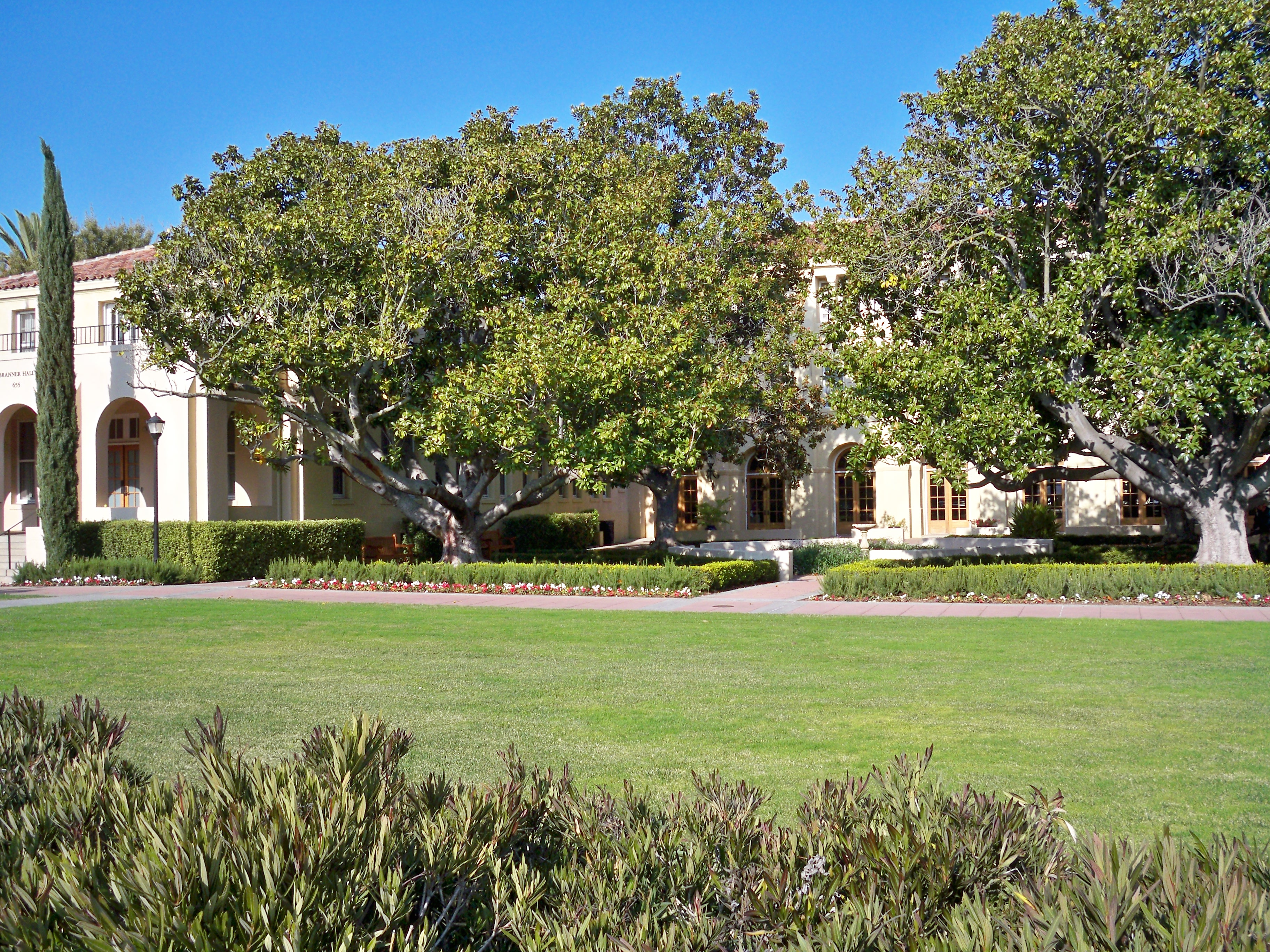 Branner Hall, a student residence on the campus of Stanford University. Named in honor of the university's second president, John Casper Branner.